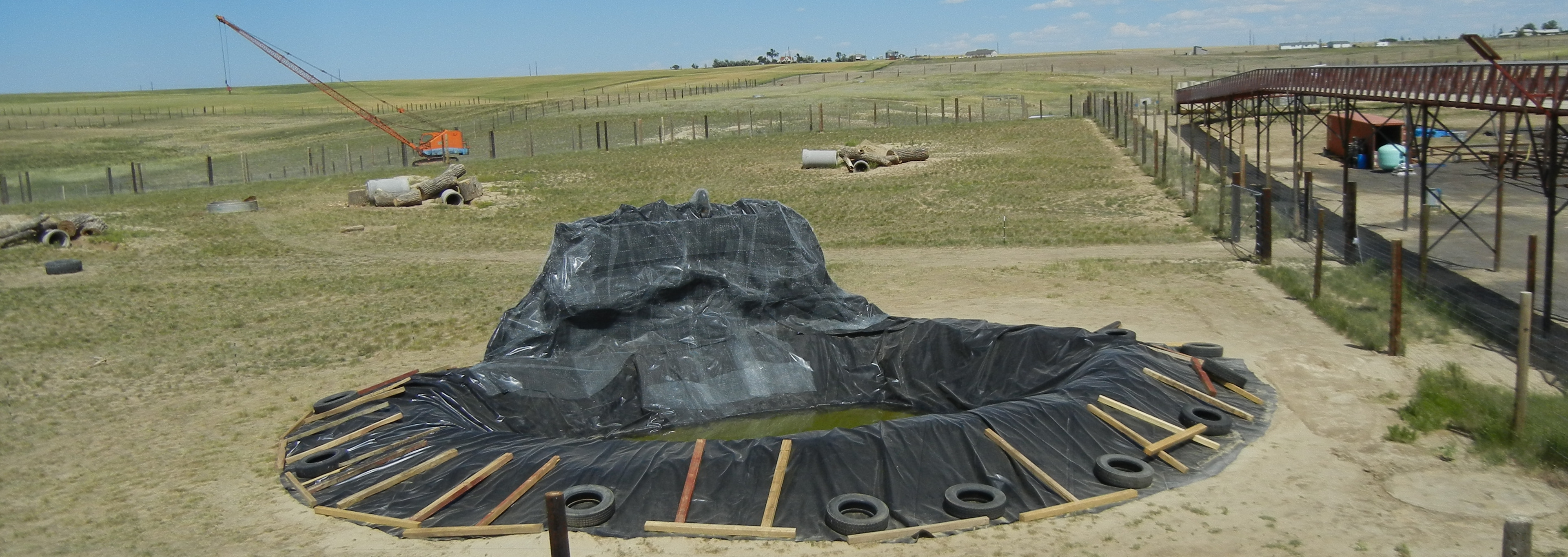 Water feature under construction in bear enclosure in June 2012, with "dens" in the background and the Mile Into the Wild spur to the new parking lot from the left to the right.